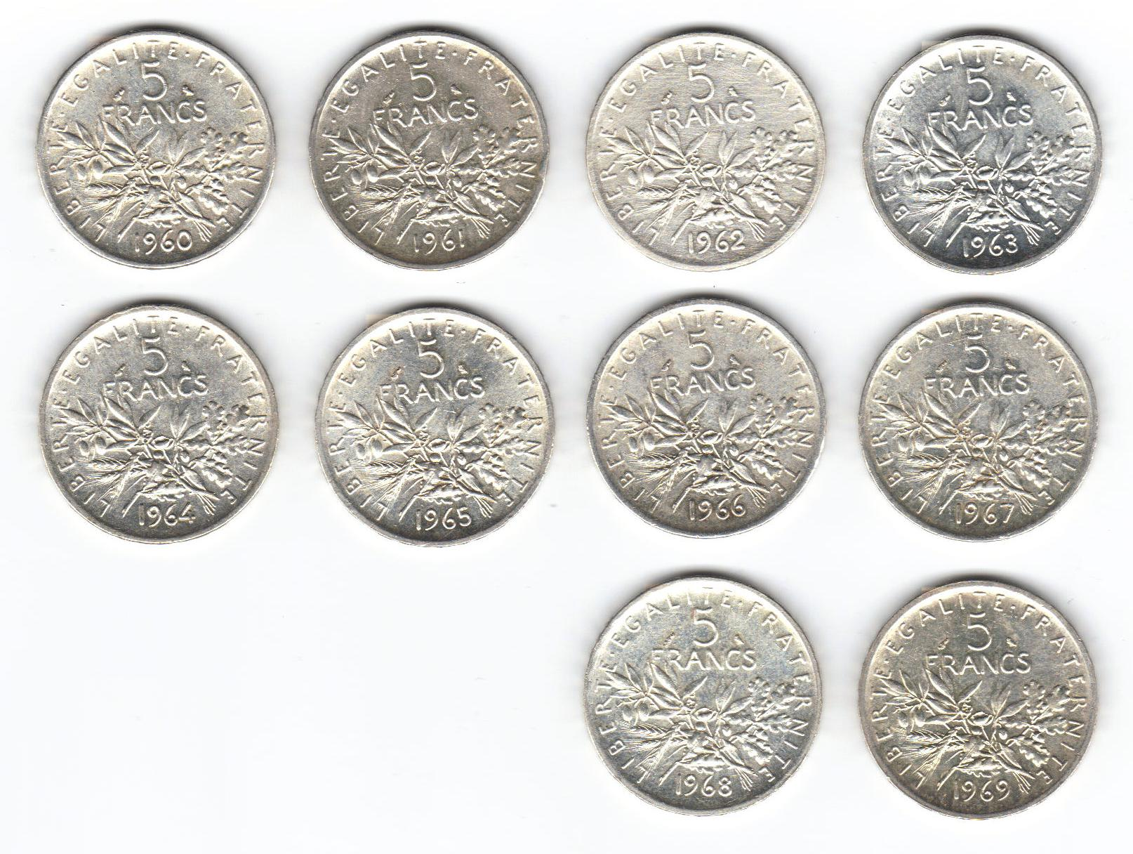 Silver coins of 5 francs